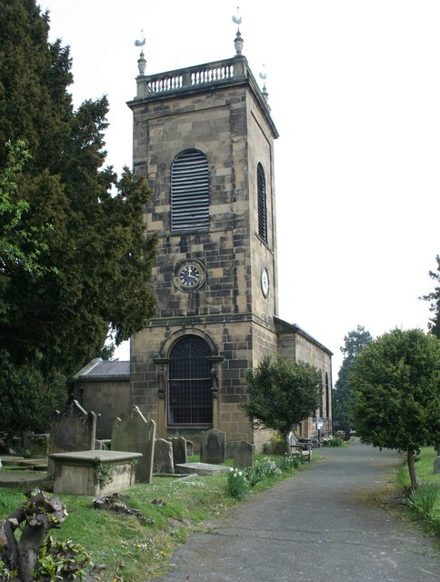 Parish church of SS Marcella and Deiniol, Marchwiel, Wales